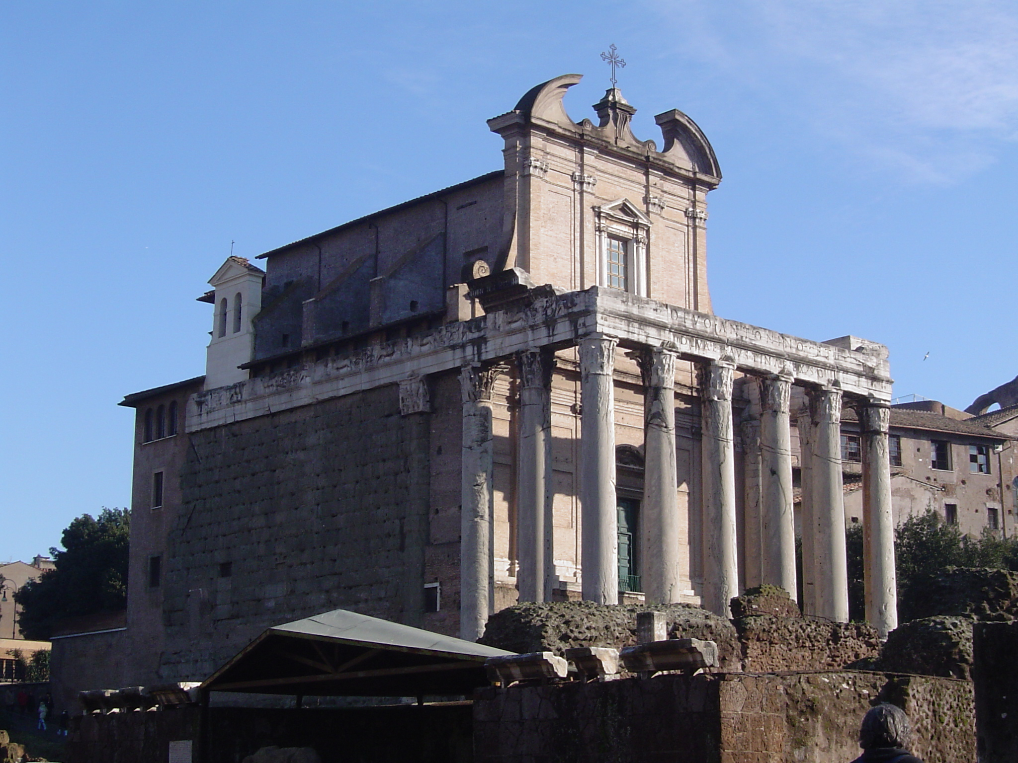 Temple of Antoninus and Faustina, Forum Romanum, Rome